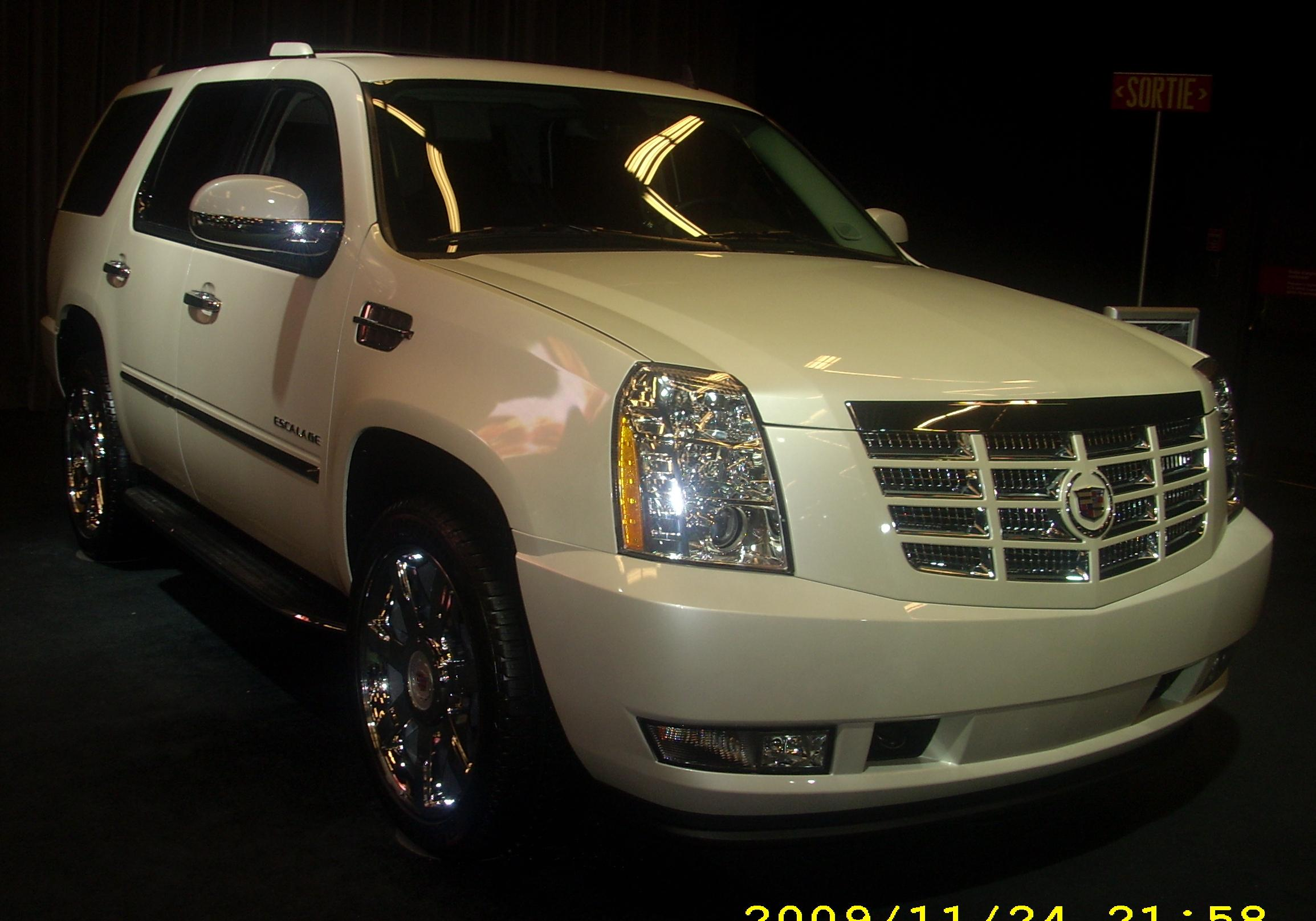 2010 Cadillac Escalade photographed in Montreal, Quebec, Canada at the 2010 Montreal International Auto Show.